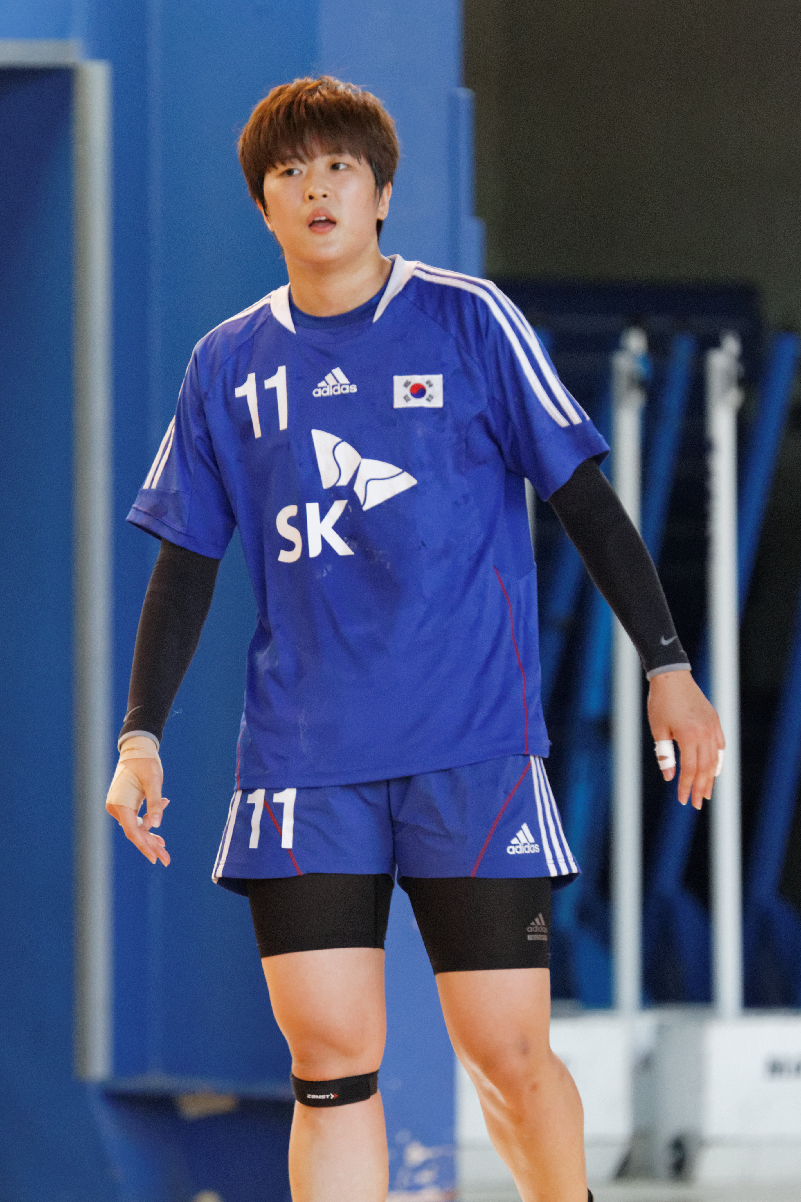 Issy Paris Hand - South Korea, 12 August 2014